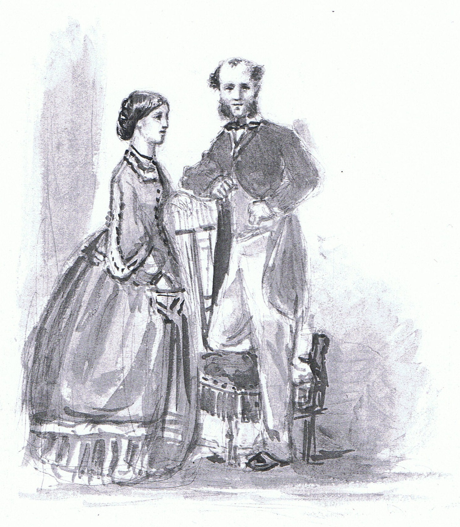 drawing of Allen Bathurst (1832-92) and his first wife Meriel Warren (1839-72), c1862. May 2008 scan of a drawing in a private collection (Tayside), Rodolph (talk) 10:22, 27 May 2008 (UTC)